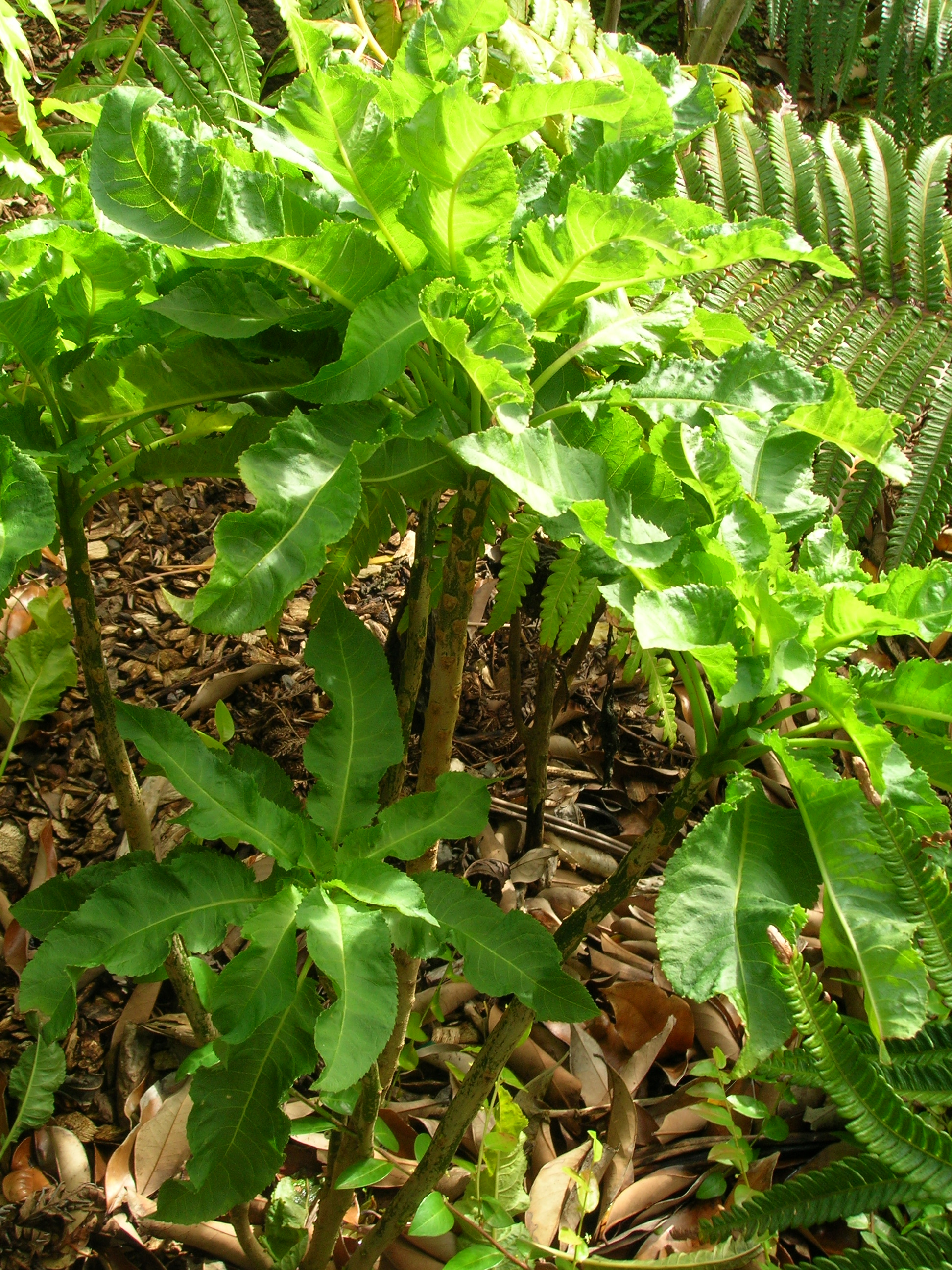 Cyanea elliptica (from Makawao Forest Reserve). Location: Maui, Hoolawa Farms